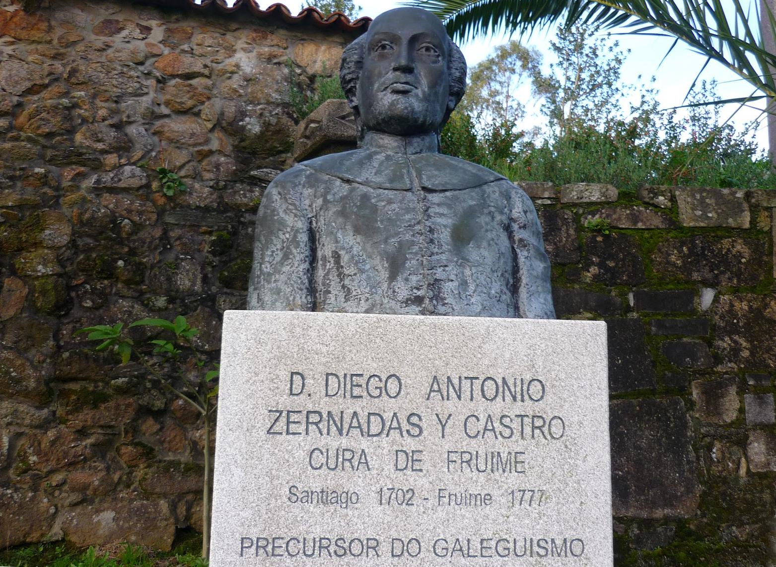 Escultura de Diego Antonio Cernadas de Castro en Fruime, Lousame, Galcia. O cura de Fruime